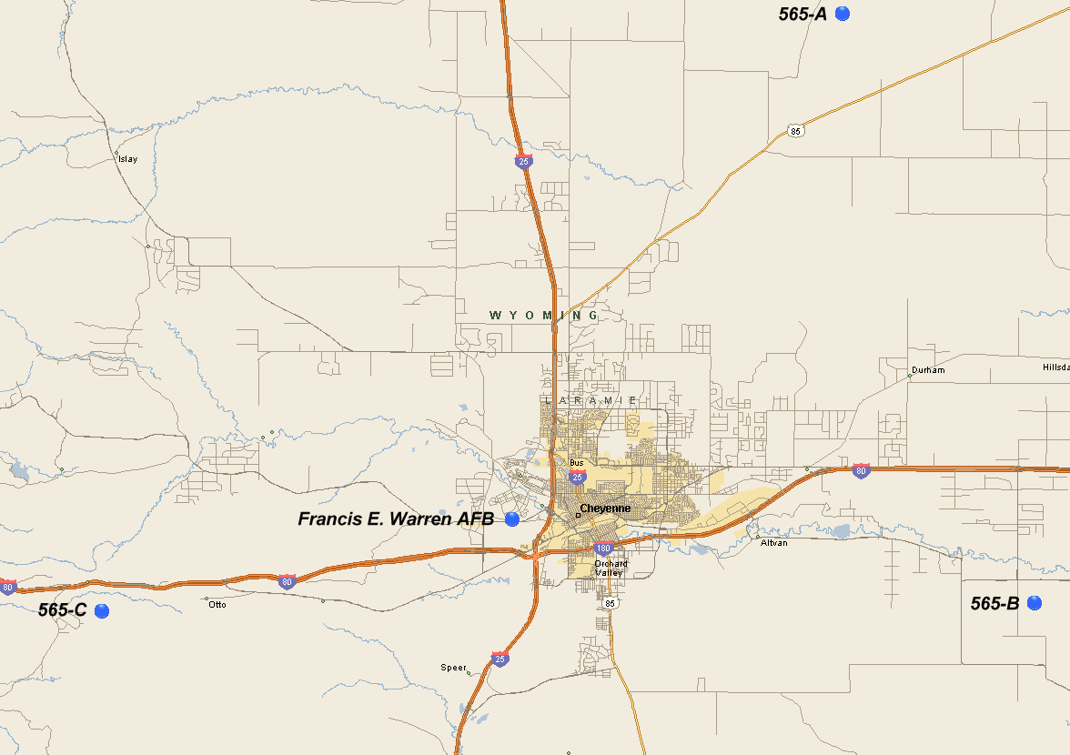 565th Strategic Missile Squadron - SM-65D Atlas Missile Sites